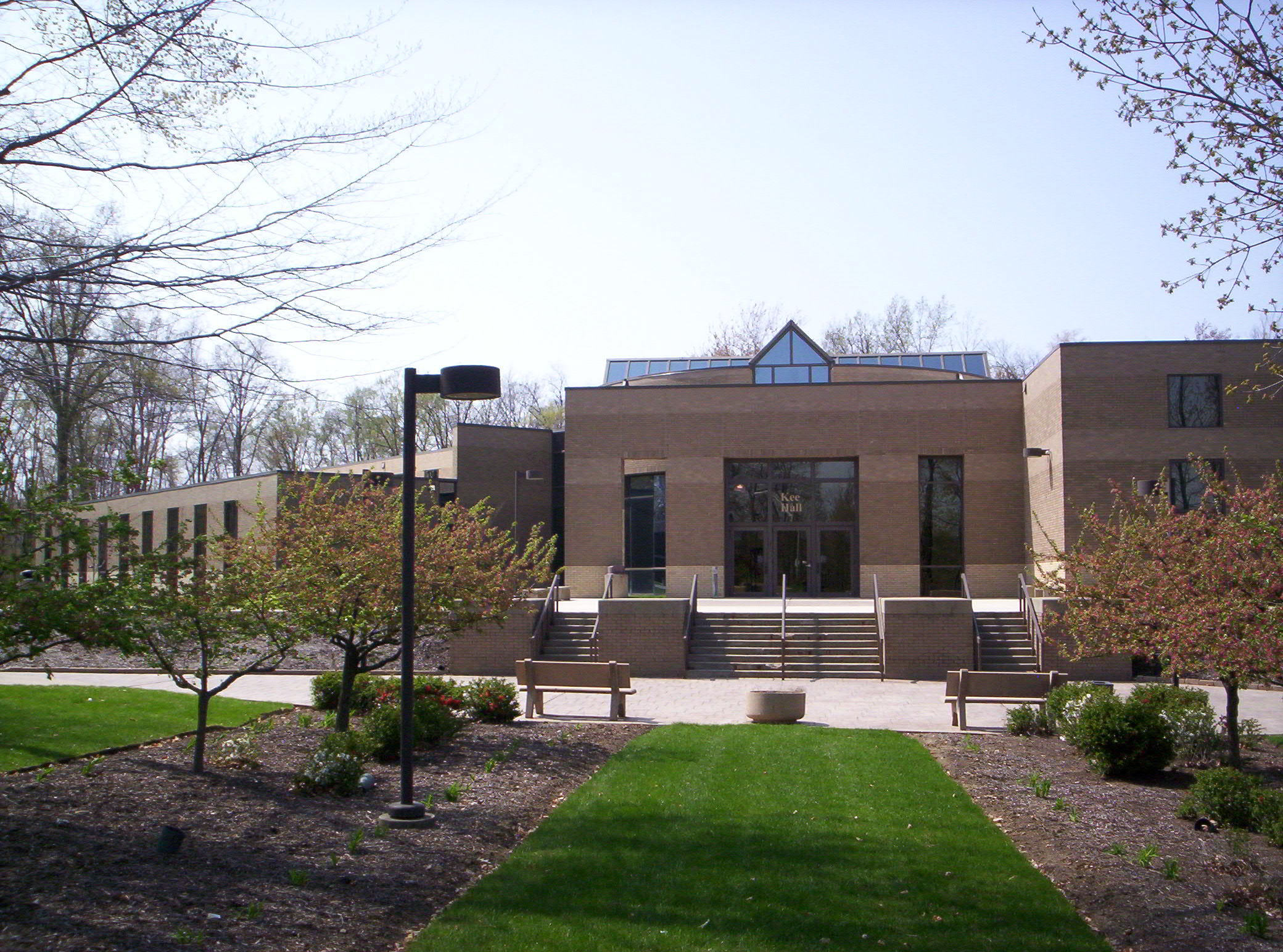 A view of Byron E. Kee Hall at North Central State College located on the Mansfield Campus with The Ohio State University.